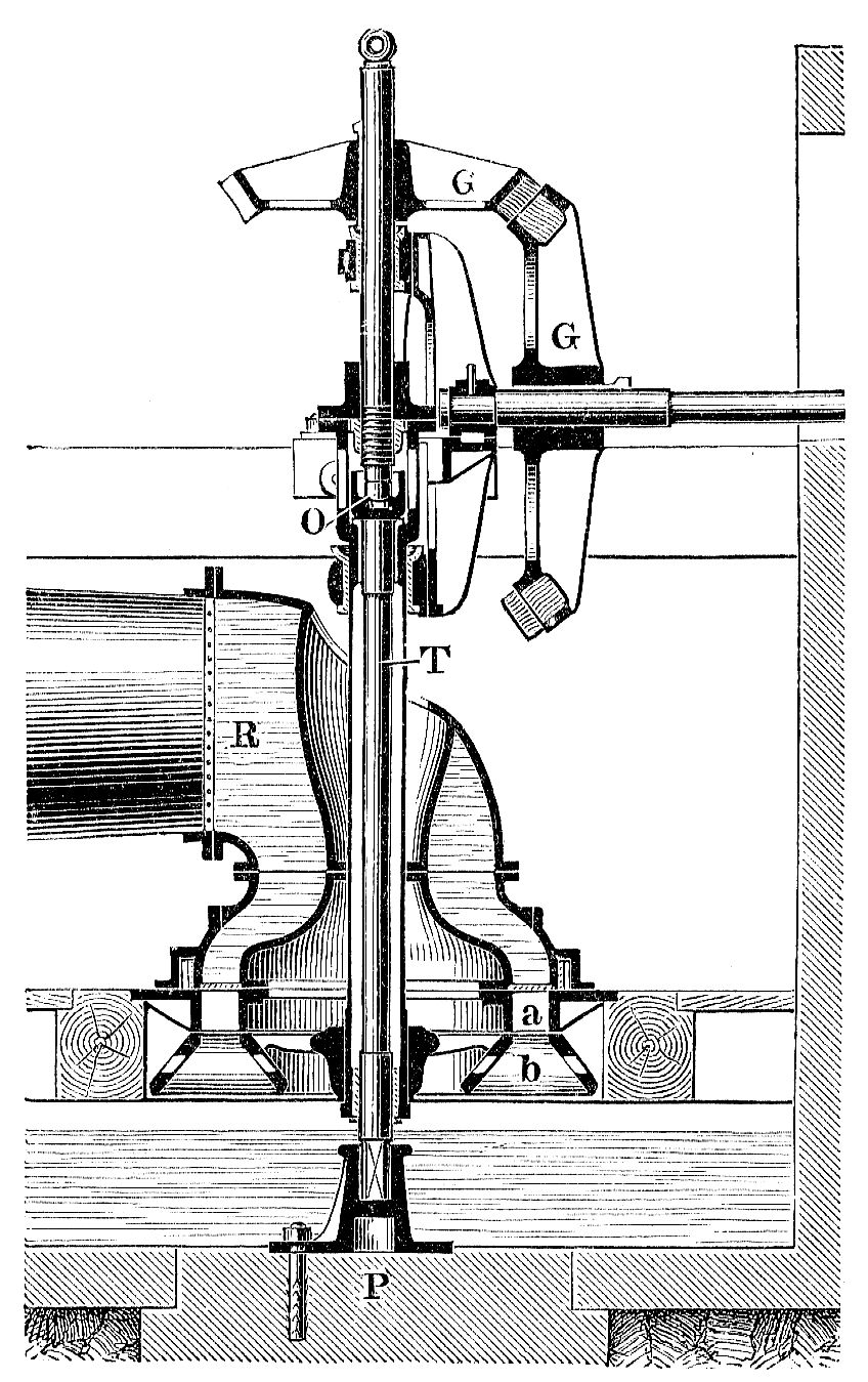 Crosssection of Axial Turbine type Girard